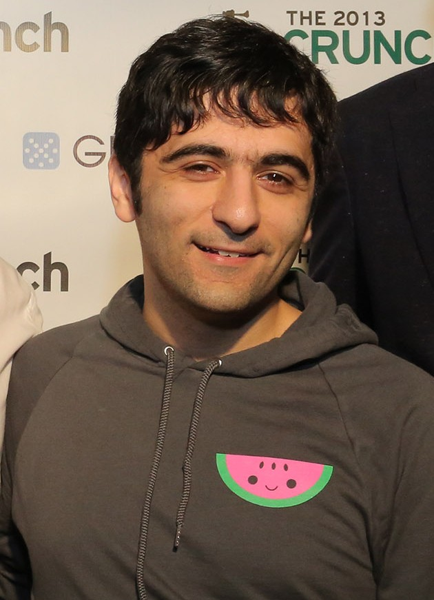 Backstage at the Crunchies 2013. Photo by Max Morse for TechCrunch.